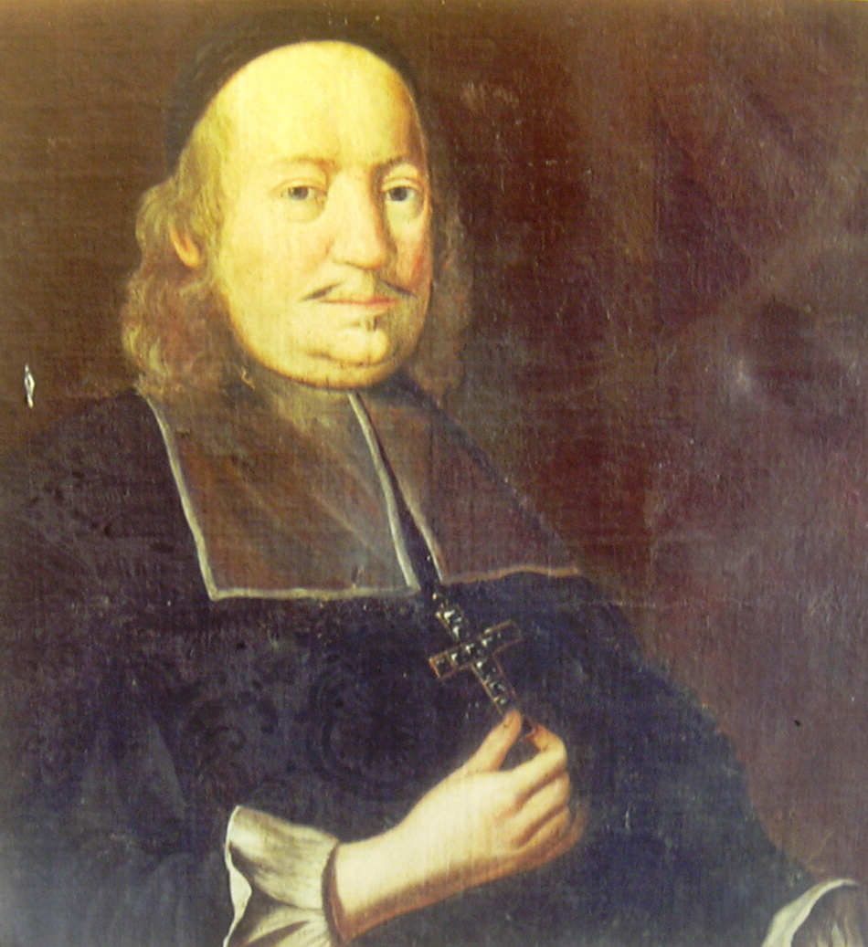 Painting of bishop of Olomouc Karel II. z Lichtenštejna